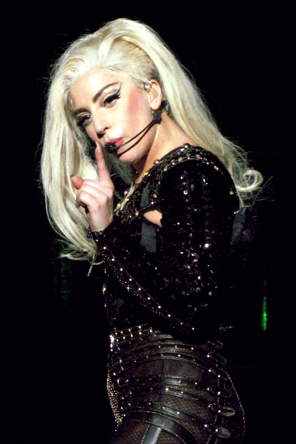 Lady Gaga during an Antwerp show of her Born This Way Ball Tour.